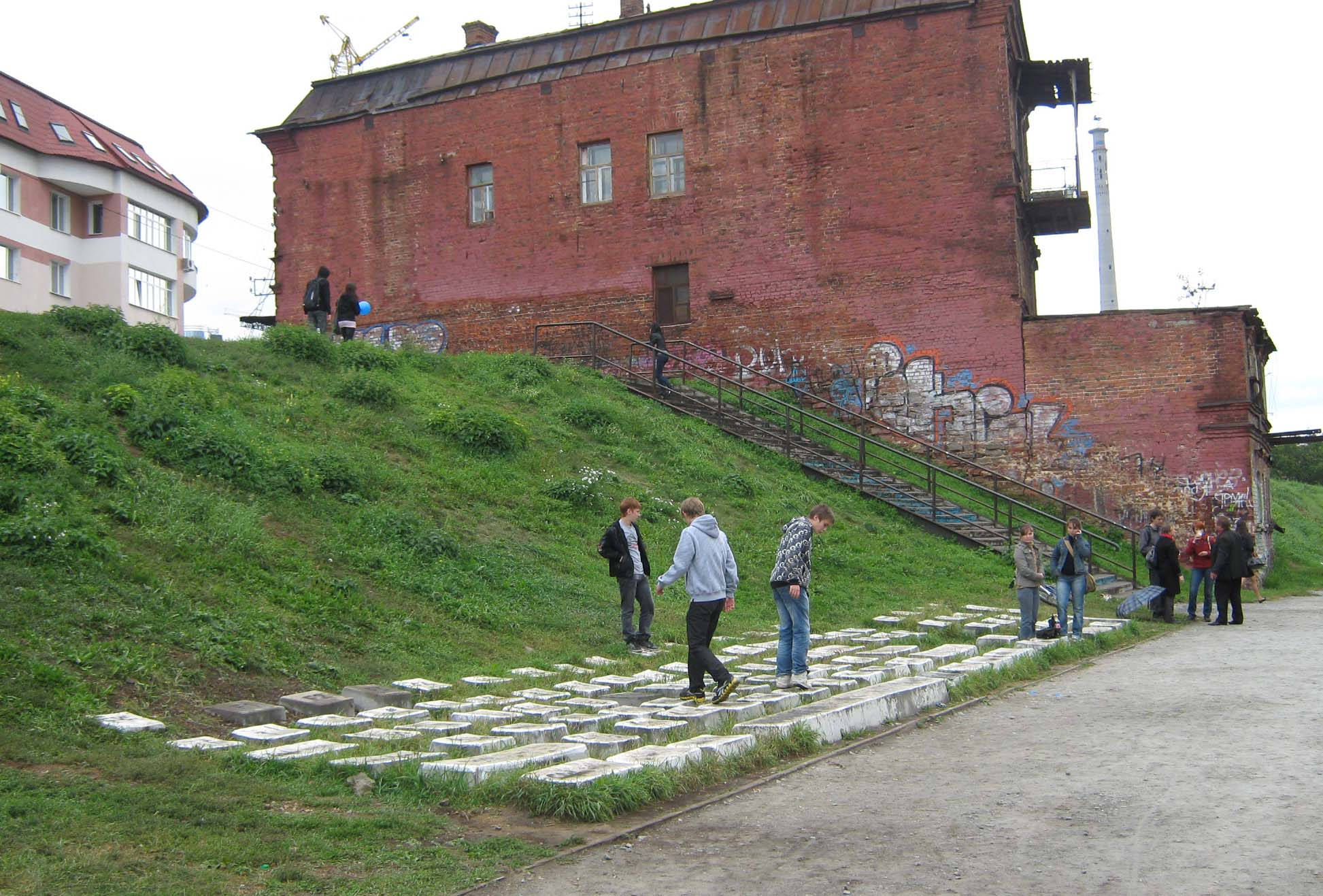 Keyboard monument fixed